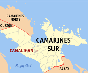 Map of Camarines Sur showing the location of Camaligan